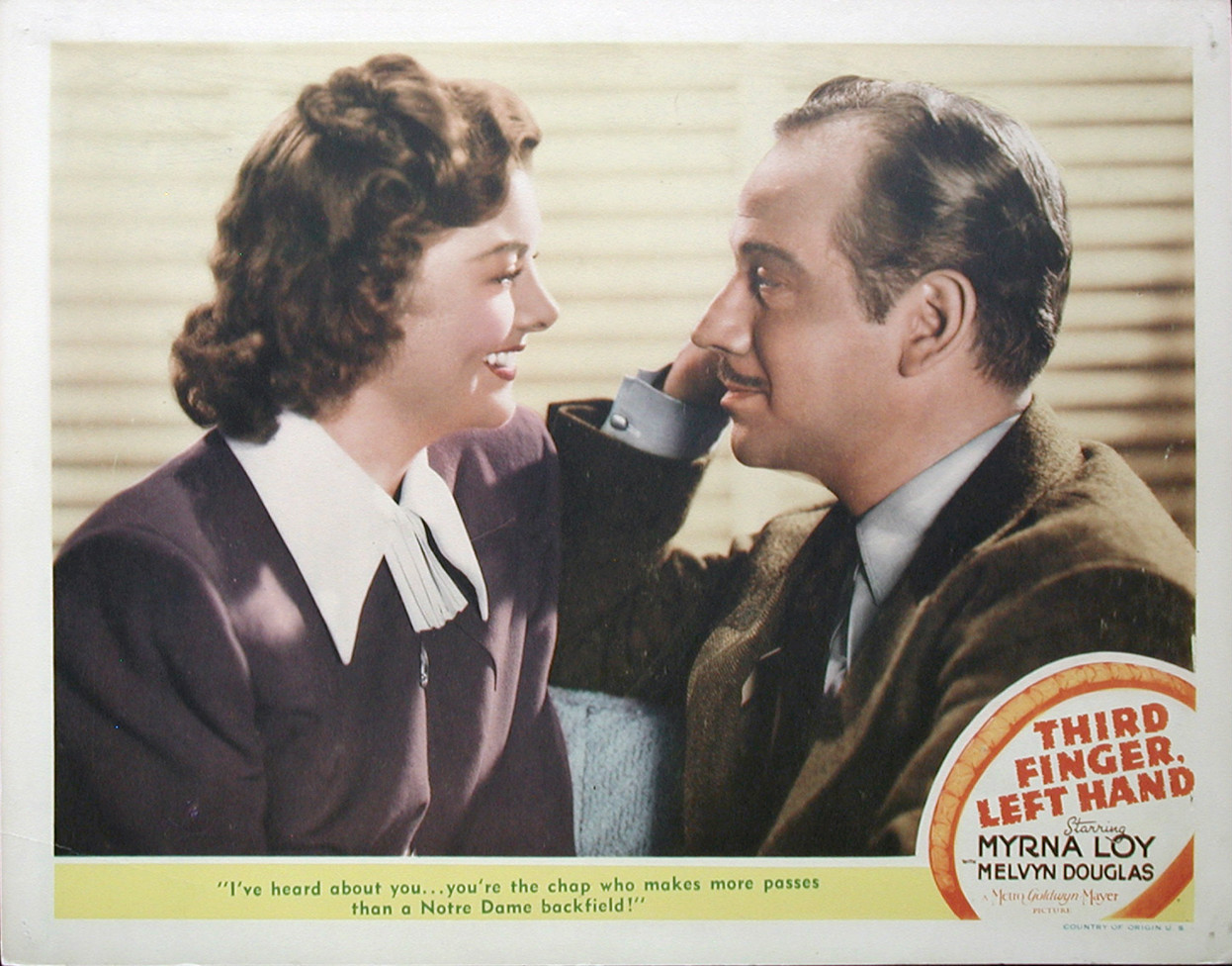 Lobby card for the American film Third Finger, Left Hand (1940).